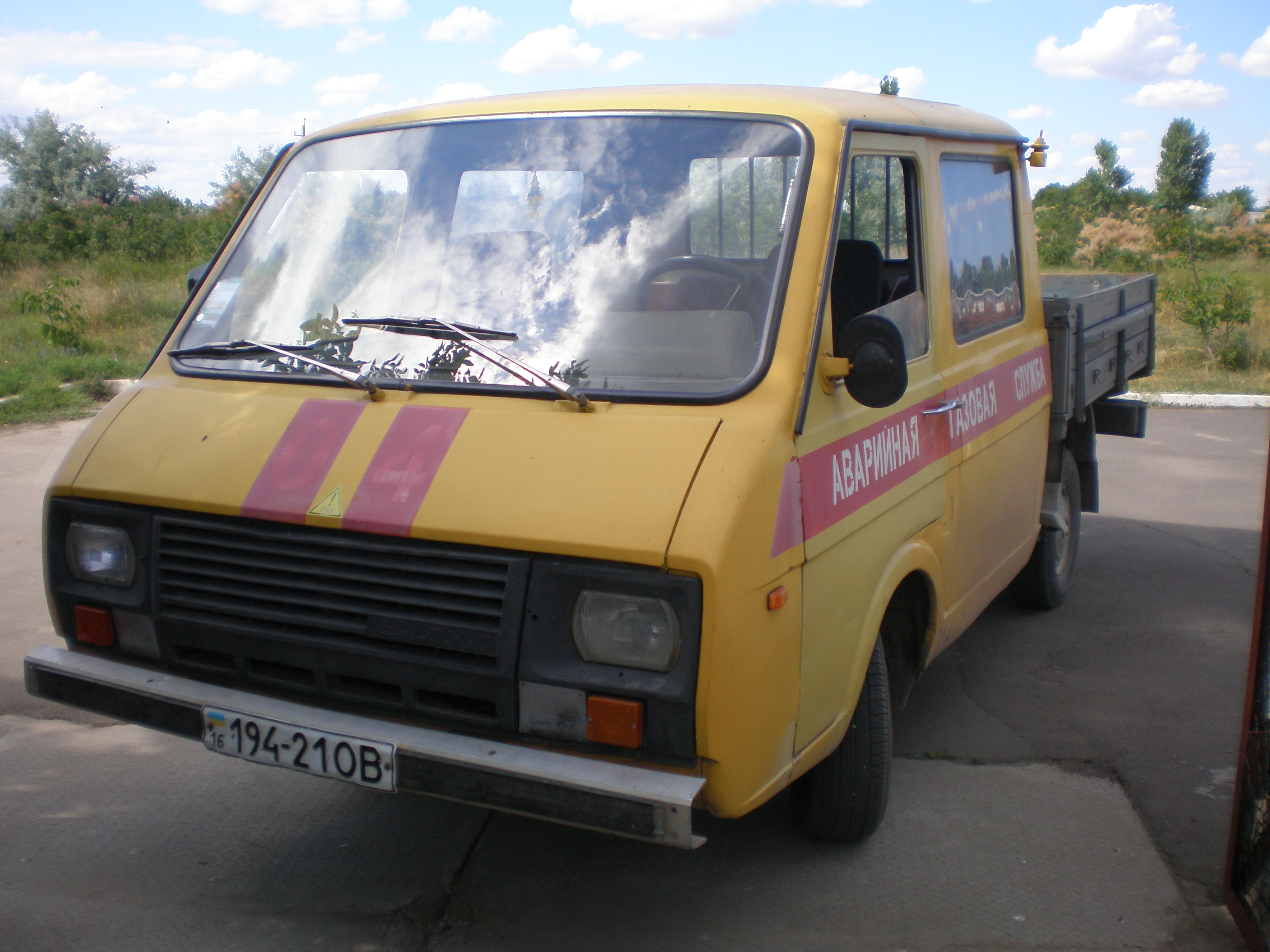 RAF-3311